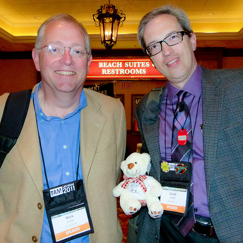 Mark Crislip and David Gorski at TAM Las Vegas 2011